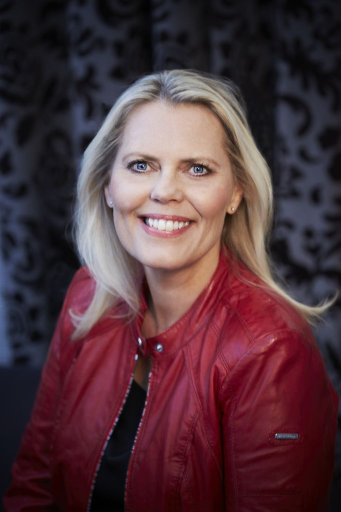 Norwegian author Ellen Vahr